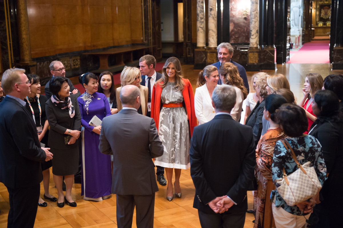 First Lady Melania Trump | July 8, 2017 (Official White House Photo by Andrea Hanks)